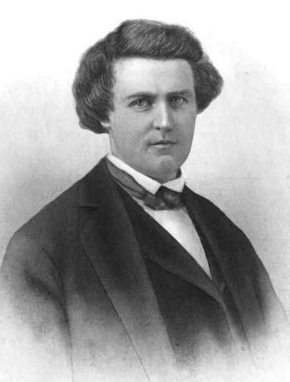 Andrew J. Ogle (Pennsylvania Congressman)